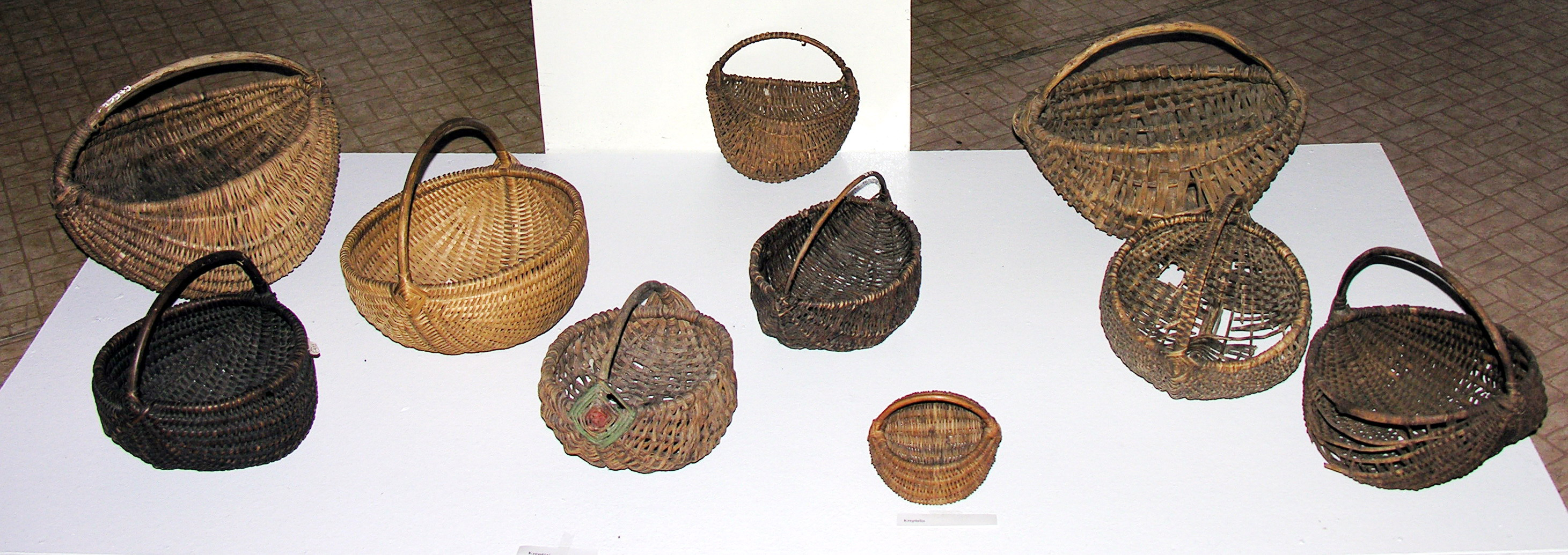 Baskets